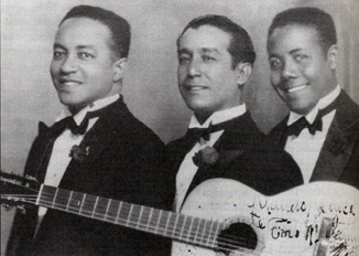 photograph of the Trio Matamoros: left: Rafael Cueto, centre: Miguel Matamoros; right: Siro Rodríguez